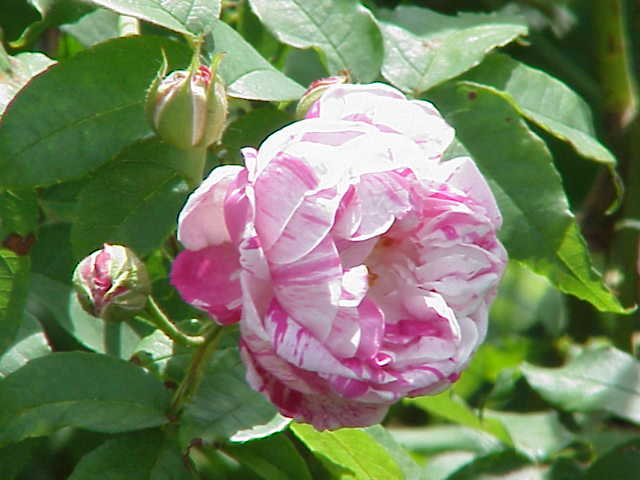 Species: Rosa sp. Family: Rosaceae Cultivar: Honorine de Brabant Image No. 145